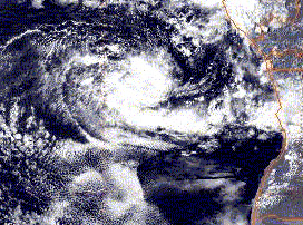 Angola Tropical Cyclone of 1991